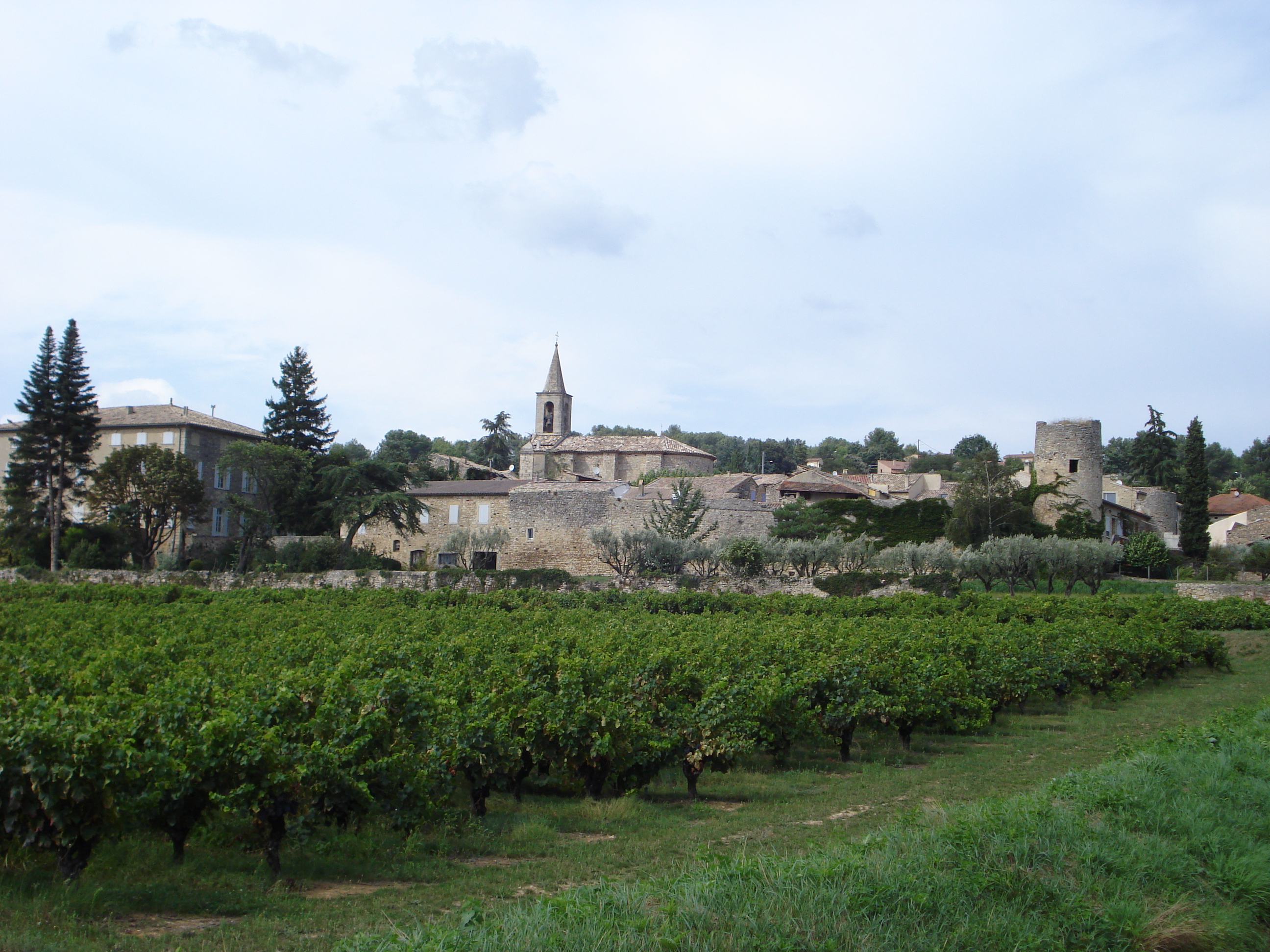 Picture of the French town St. Michel d'Euzet.